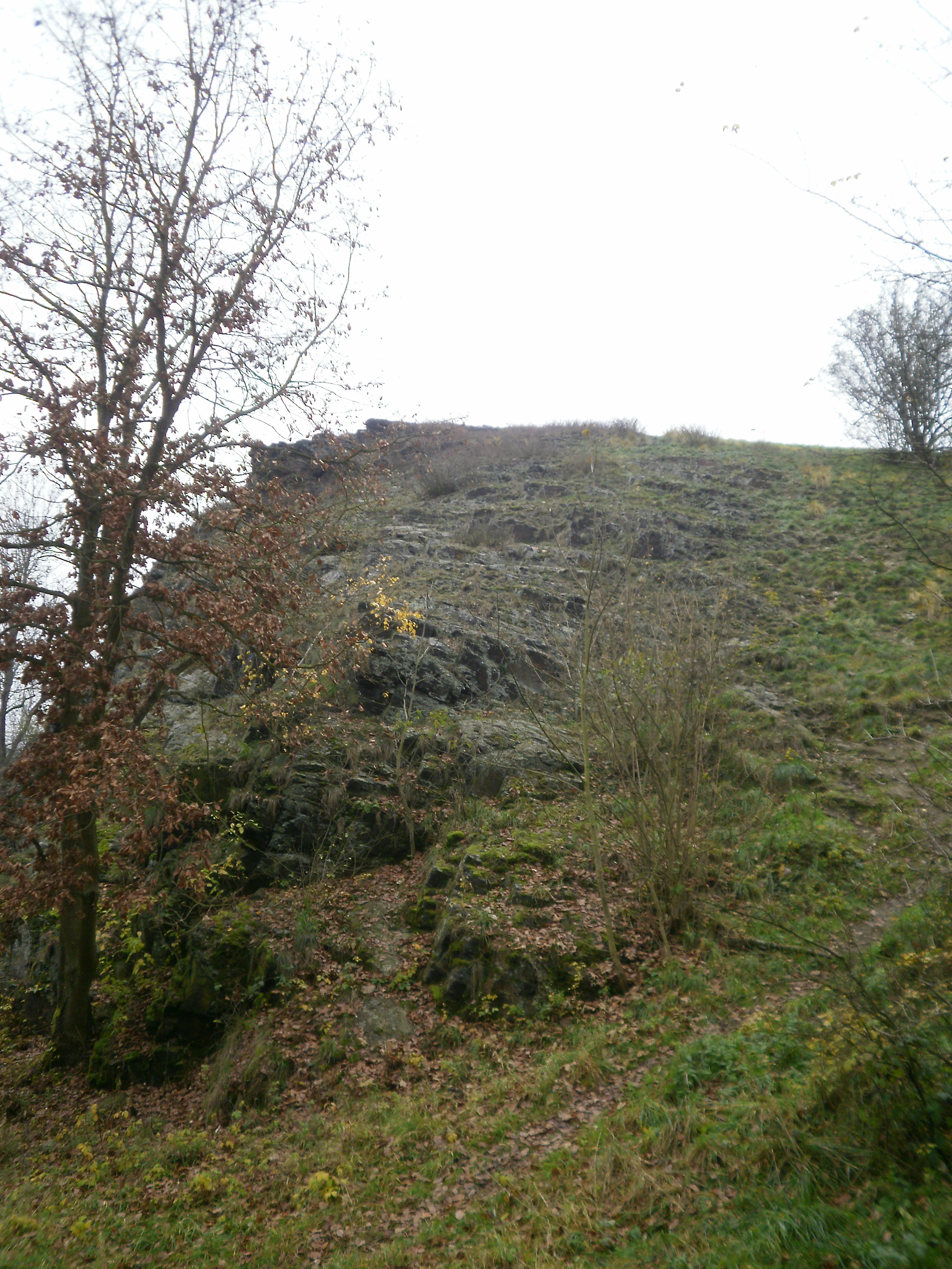 Natural monument Jenerálka in Prague, Czech Republic